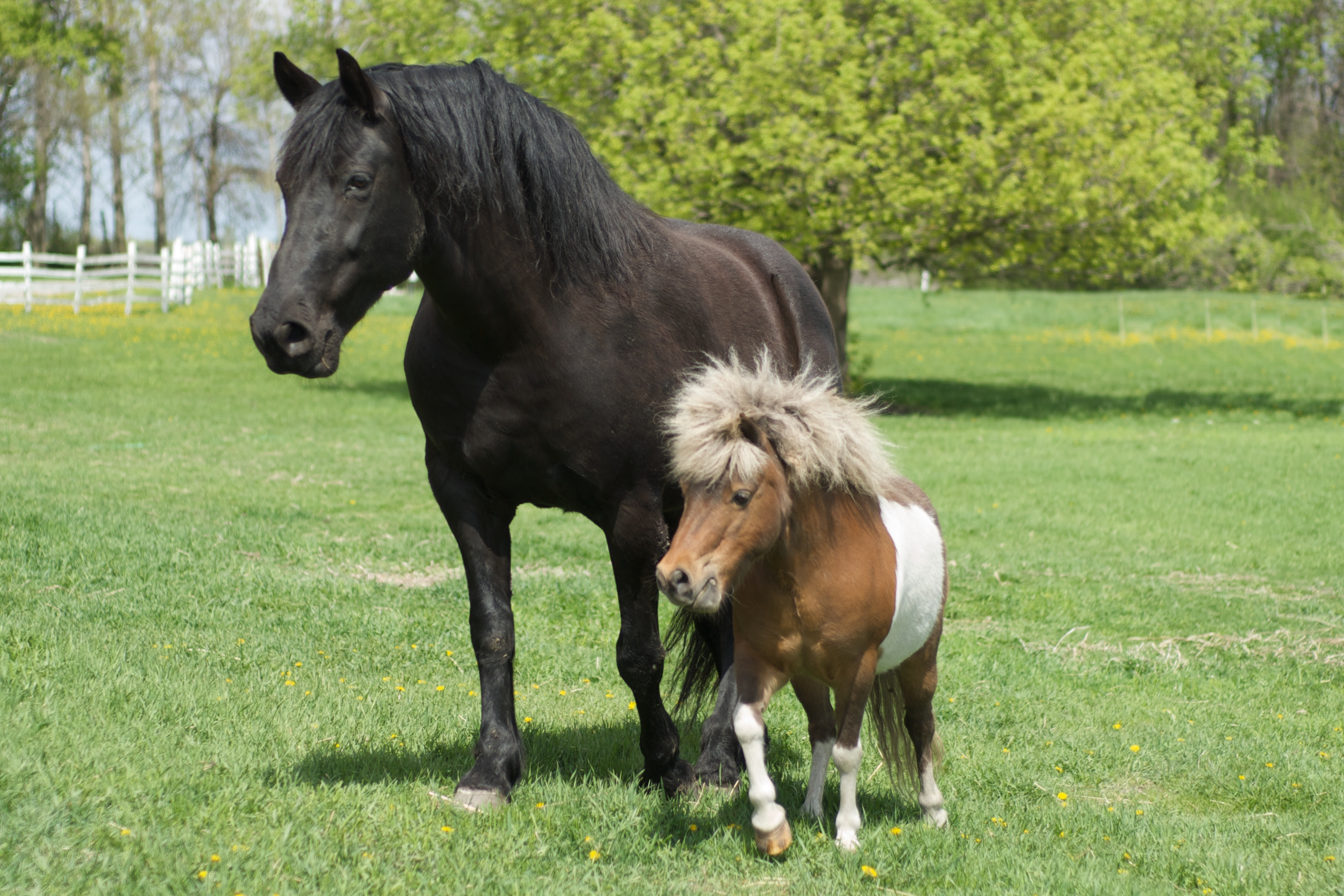 Mariah, a Morgan/Frisian mare, and Ginger, a miniature mare, hanging out in the pasture. I'm surprised that Mariah let Ginger get this close to her. Mariah is definitely the boss of this herd and likes to boss that little horse around.